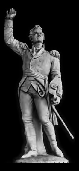 A statue of Ethan Allen, sculpted by Larkin Goldsmith Mead, when it was on display at the Vermont State House before 1912. (The statue was subsequently destroyed.)